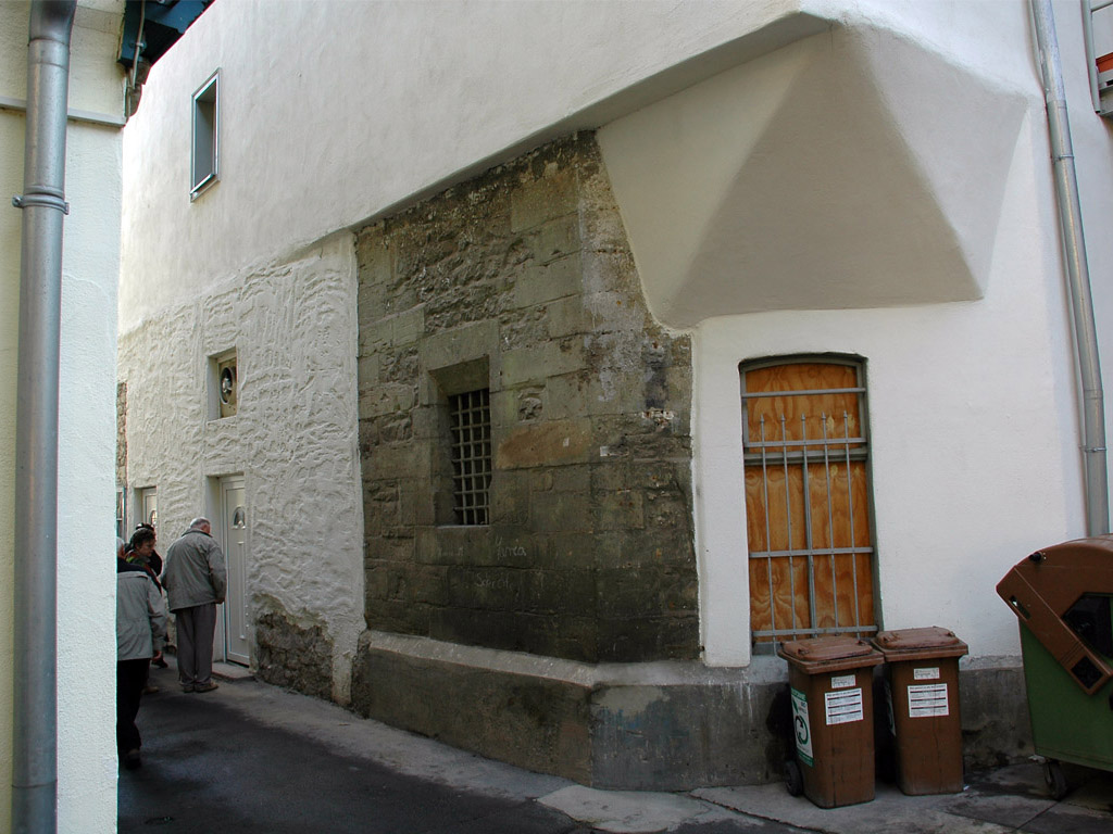 Remains of the sacristy of the former St. Vitus's Church in Erfurt.